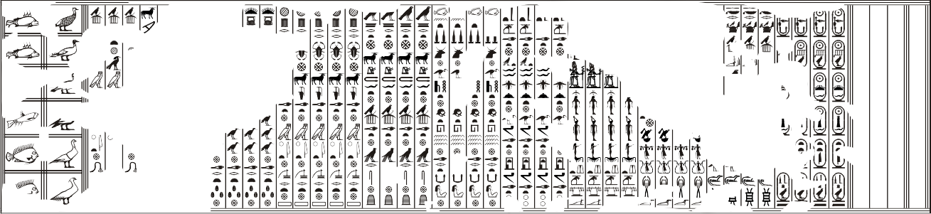 Writing board found at Giza, Egypt, modern drawing